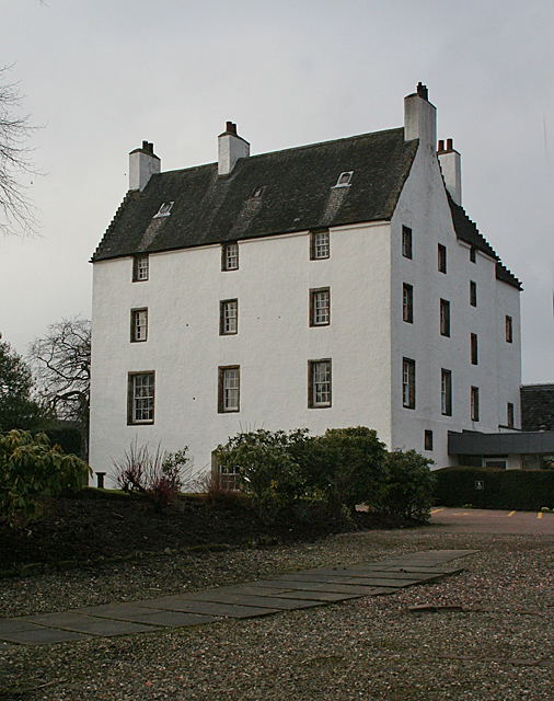 Houstoun House